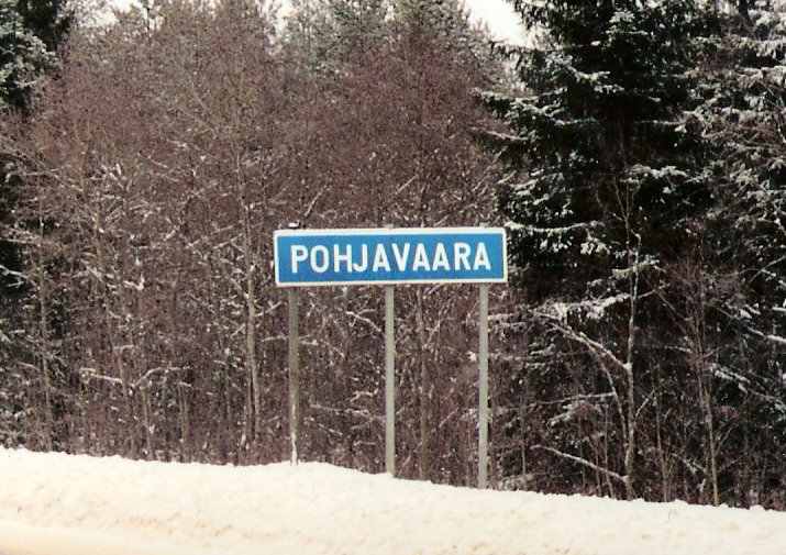 Pohjavaara village, Sotkamo, Finland.